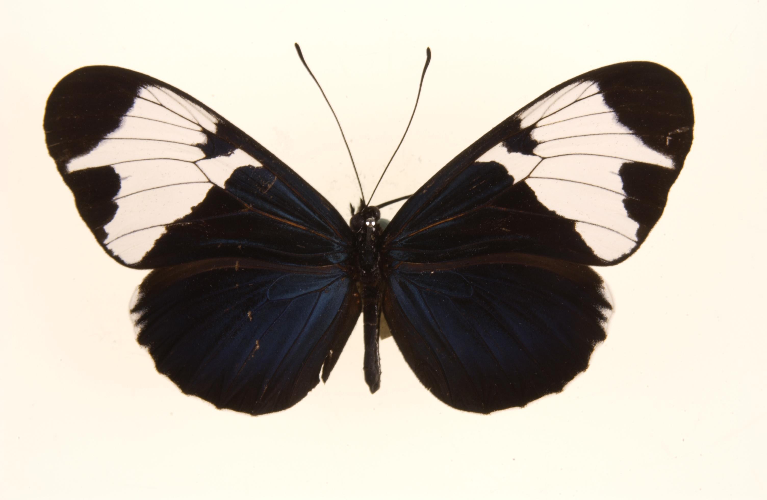 Heliconius sapho